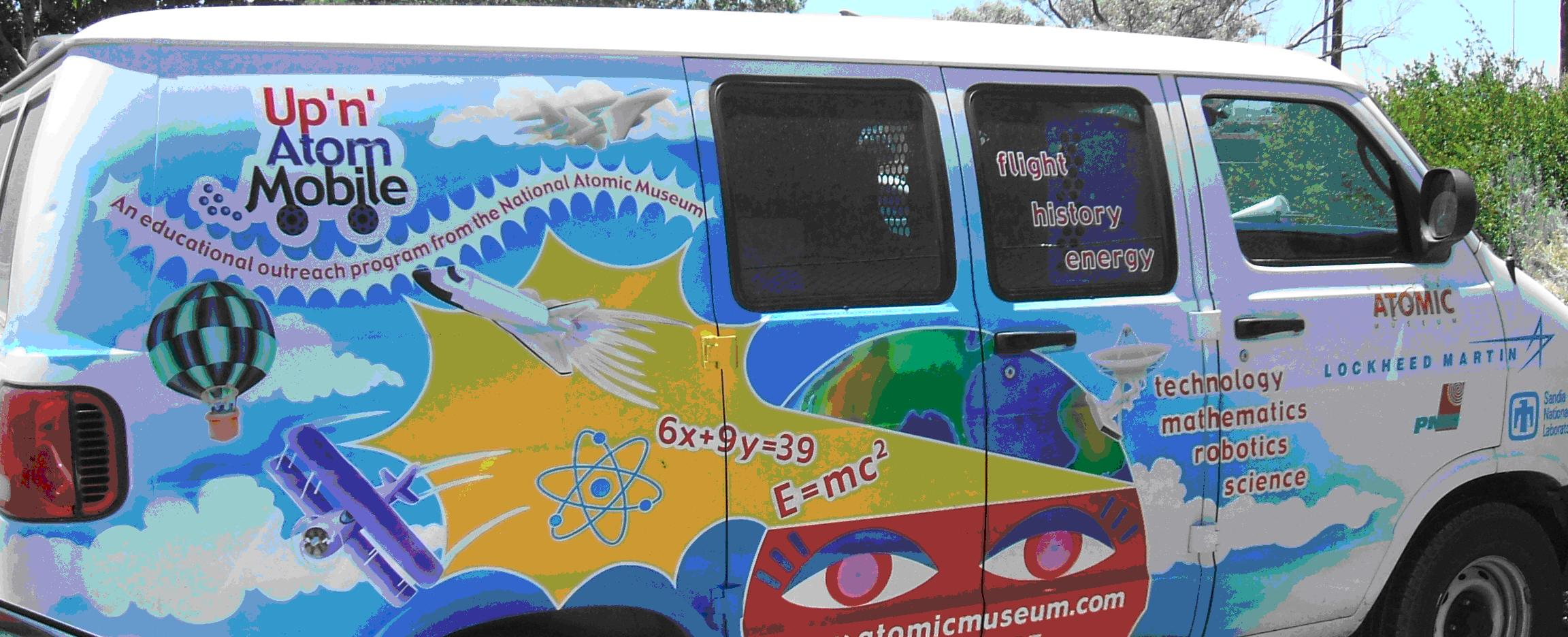 photo of National Atomic Museum outreach van